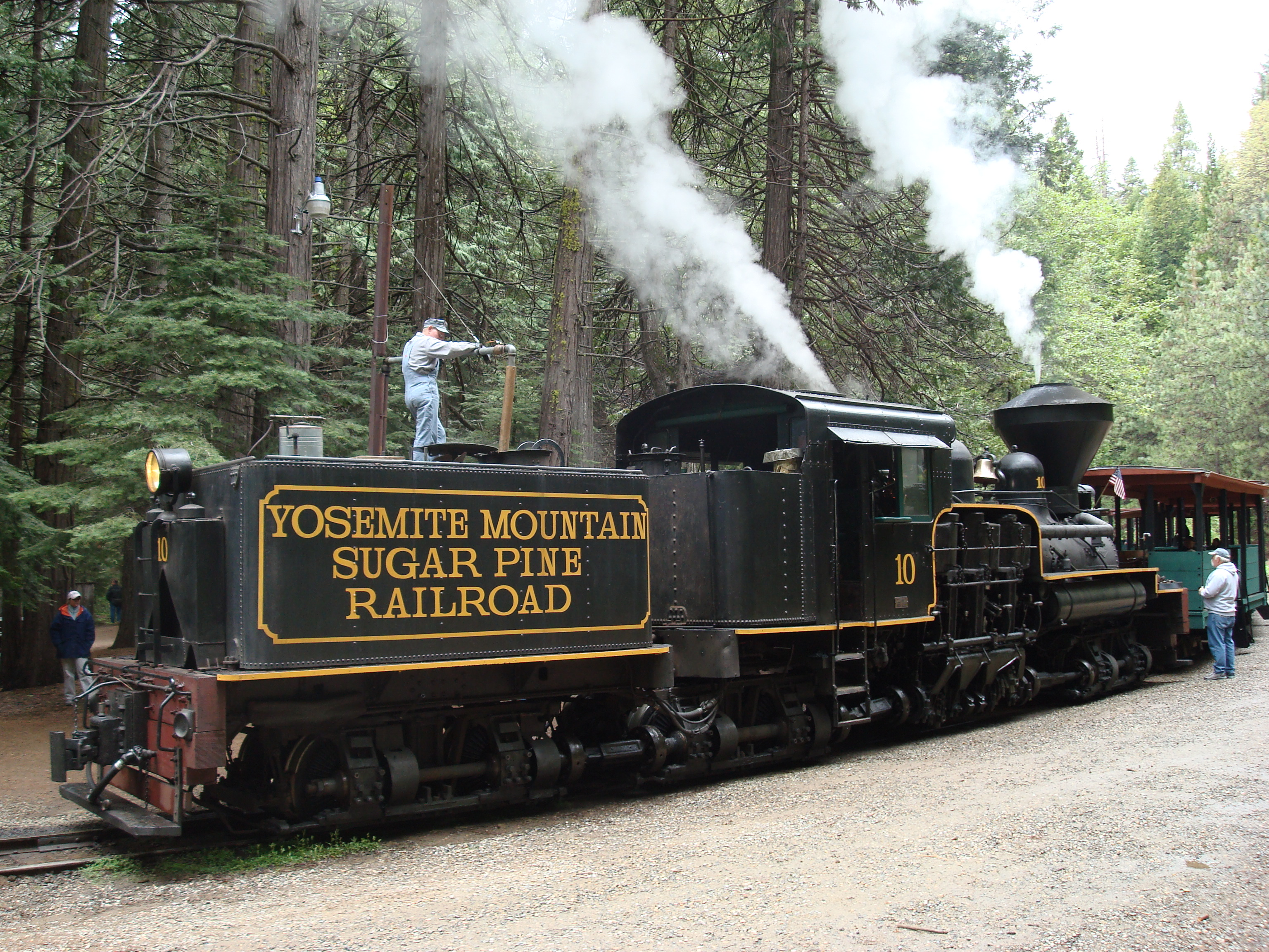 YMSPR Shay No. 10 taking on water midway through a run